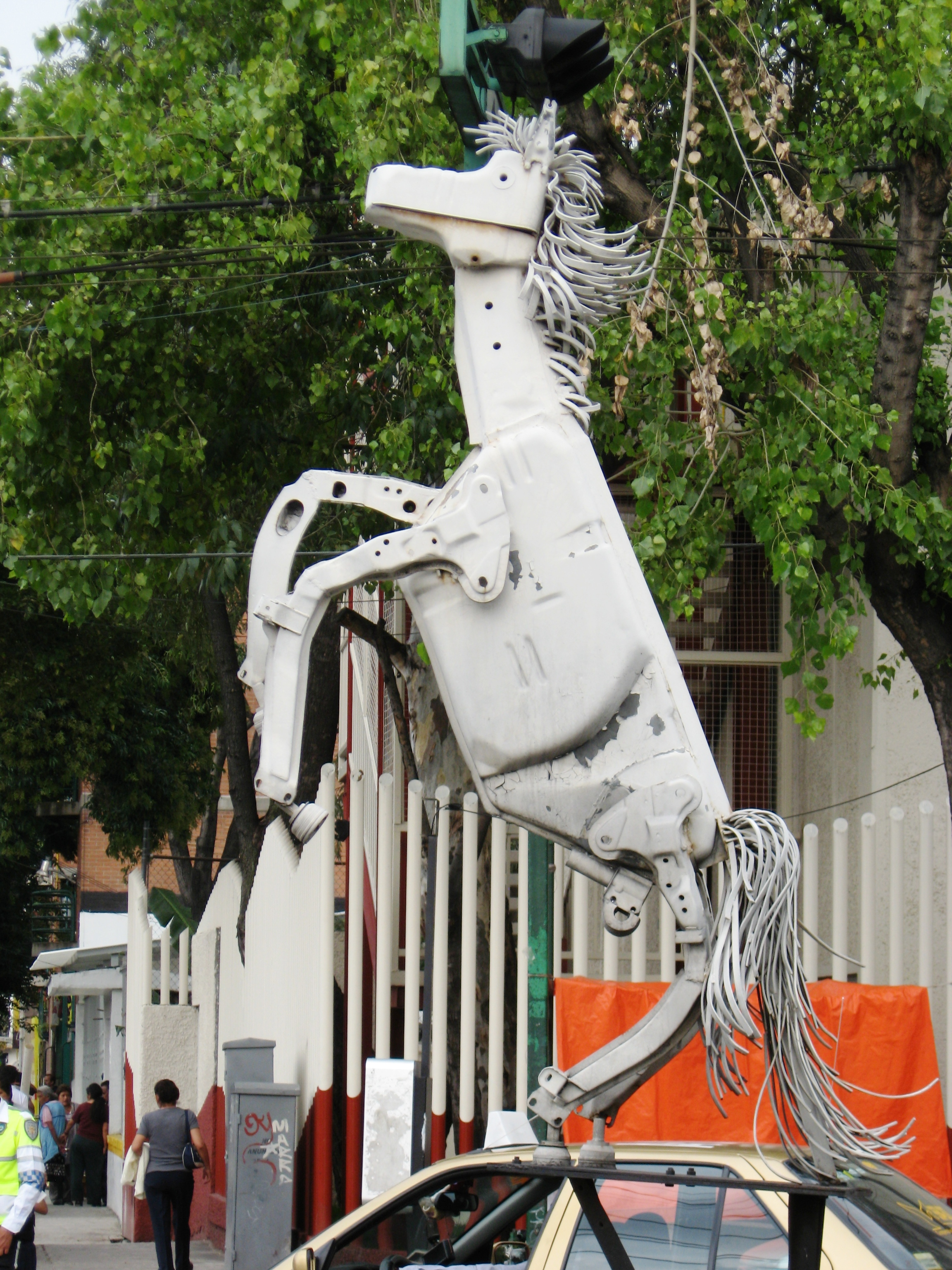 Horse sculpture on Dr Vertiz Street in Colonia Buenos Aires in Mexico City